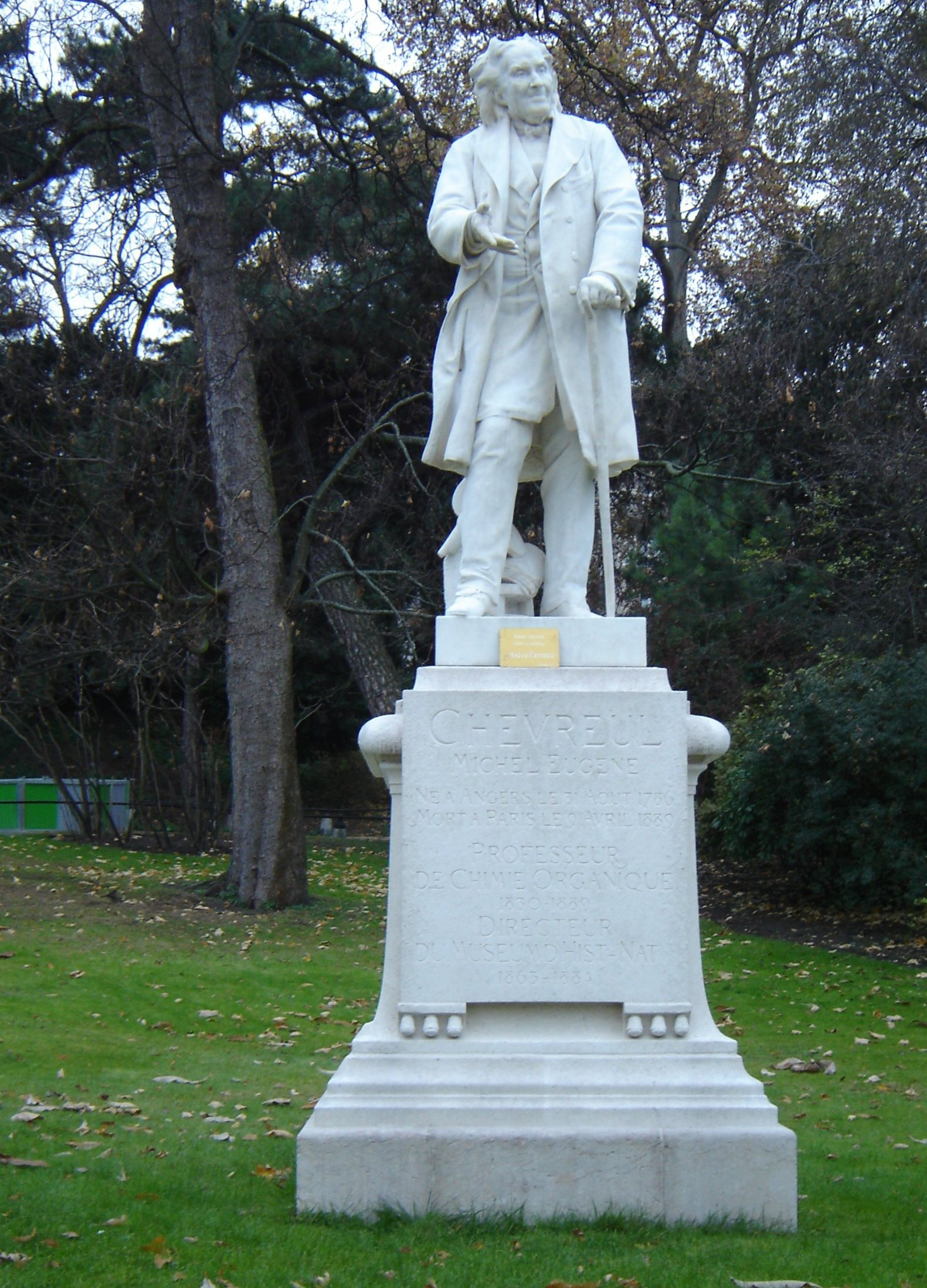 Statue of Eugène Chevreul in Jardin des Plantes.